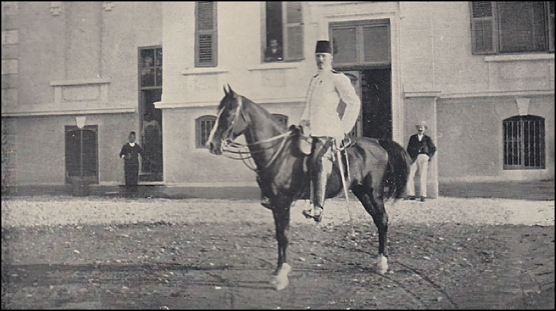 Lionel Bonham in 1905, when in charge of gendarmerie school at Salonica